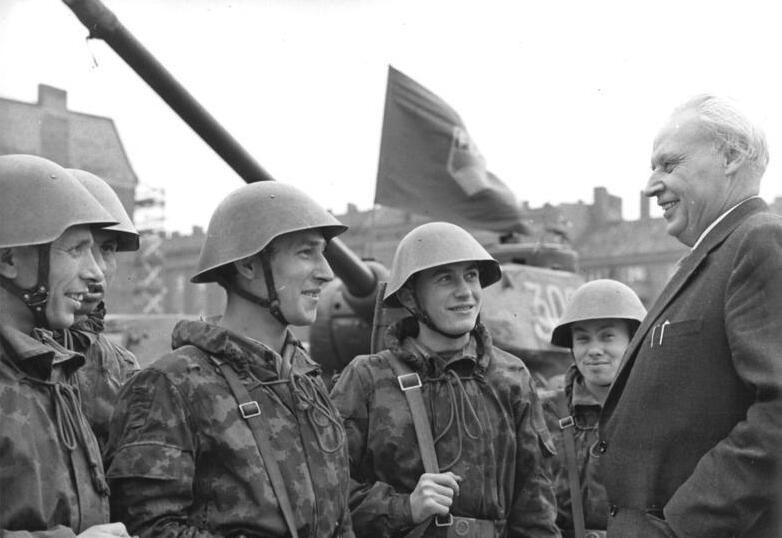 21.08.1961, Erection of the Berlin Wall. Soldiers of an east german tank unit, stationed in Berlin Friedrichshain, are visited by Herbert Warnke, member of the Central Committee of the Socialist Unity Party of Germany and head of the Free German Trade Union Federation. Note the soviet made T-34/85 tank